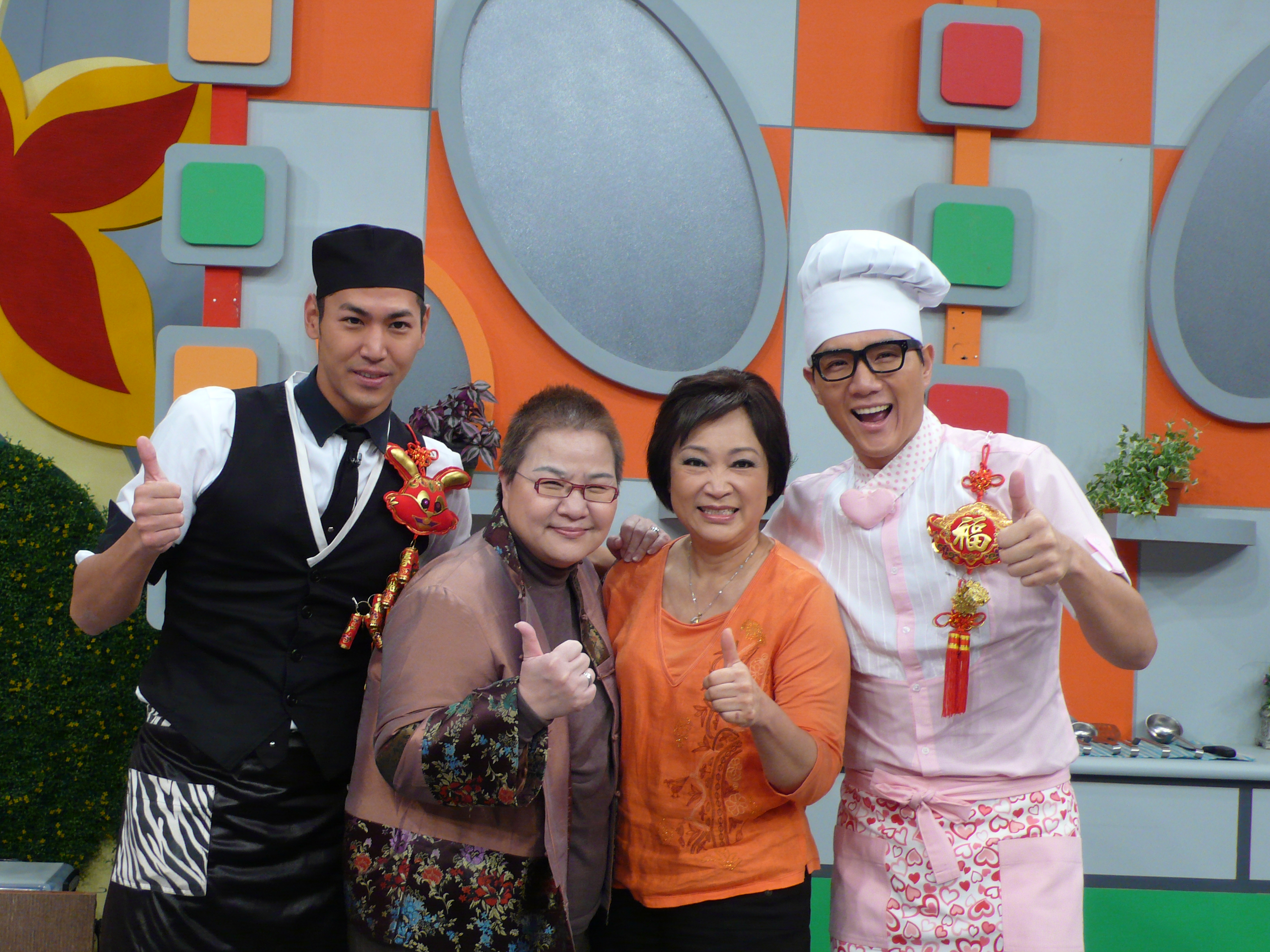 2010 ann hu on TV show